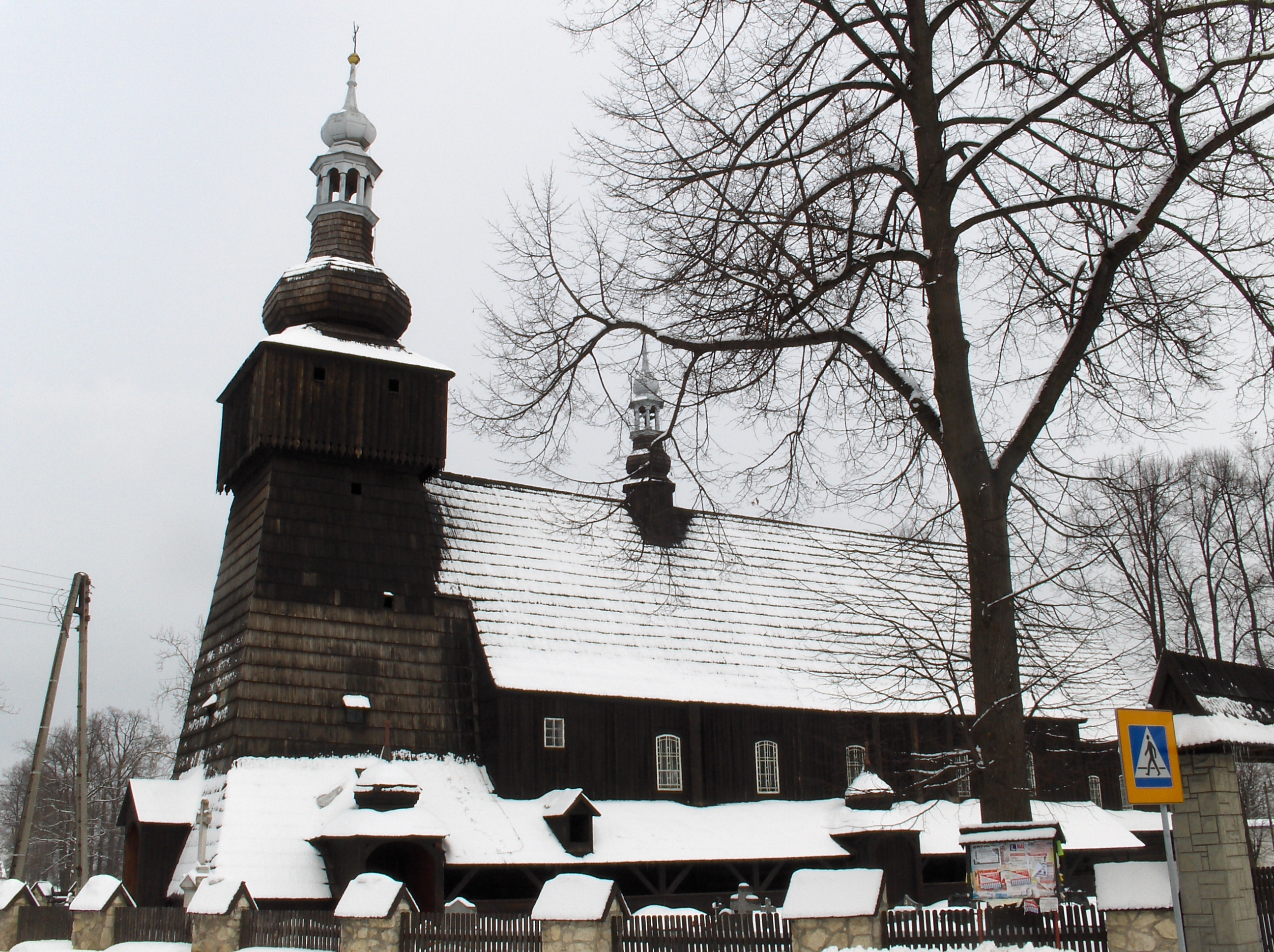 Church in Miedźna